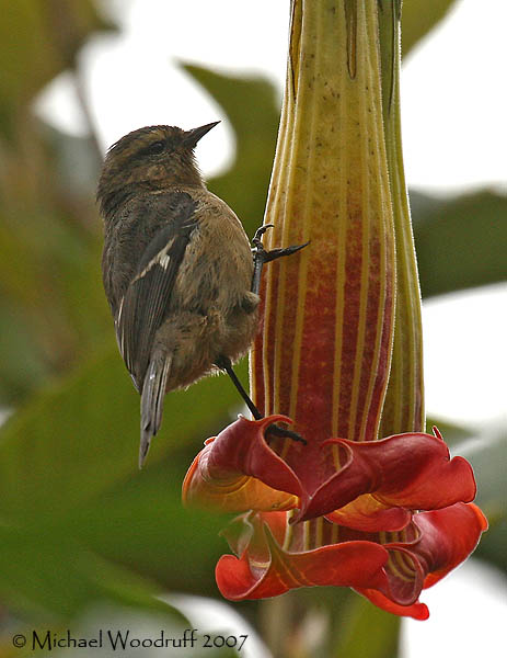 Cinereous Conebill, Cayambe-Coca Reserve, near Papallacta Pass